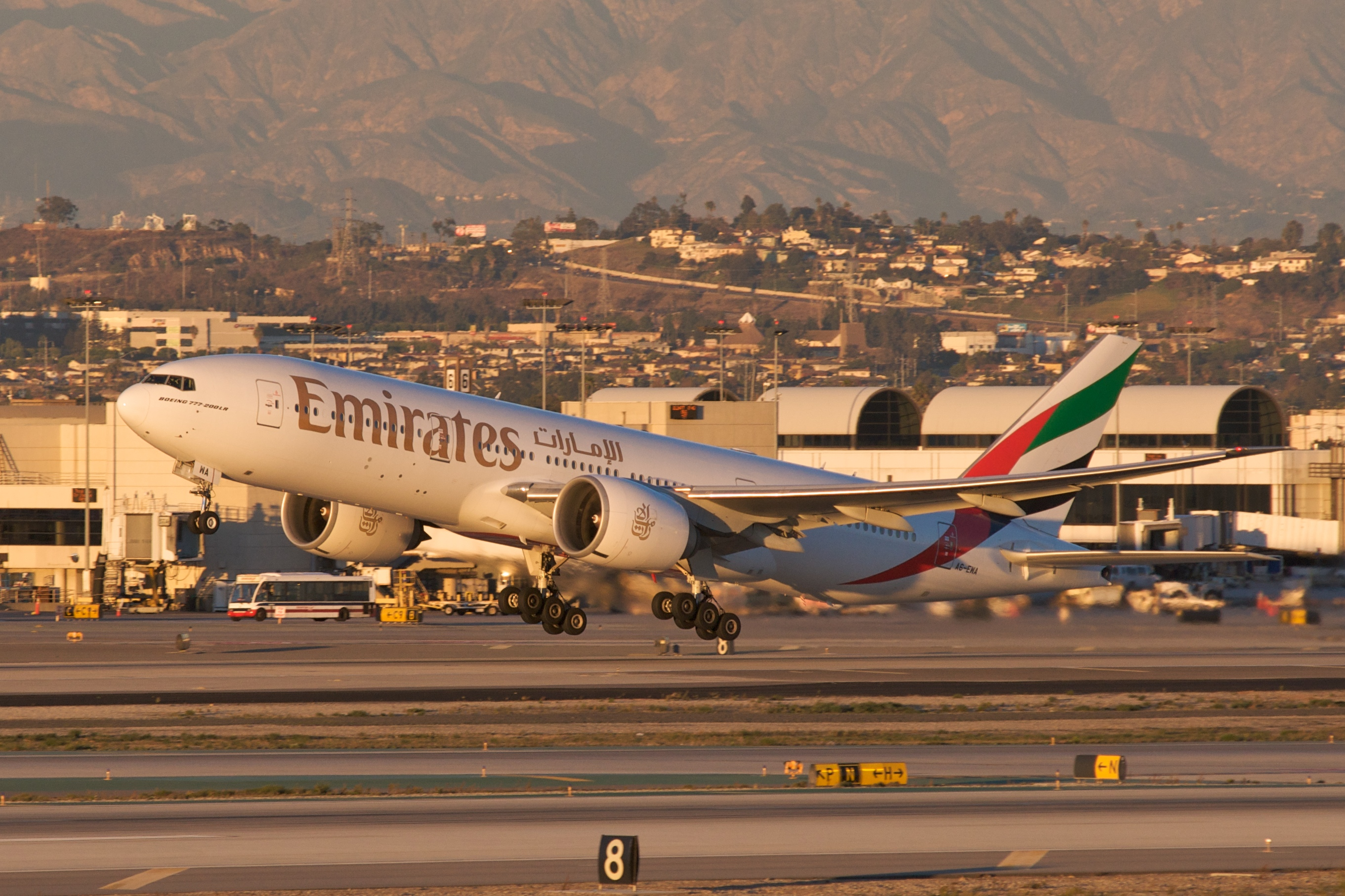 Emerates Boeing 777-200LR lifting off from LAX to DXB late in the afternoon.